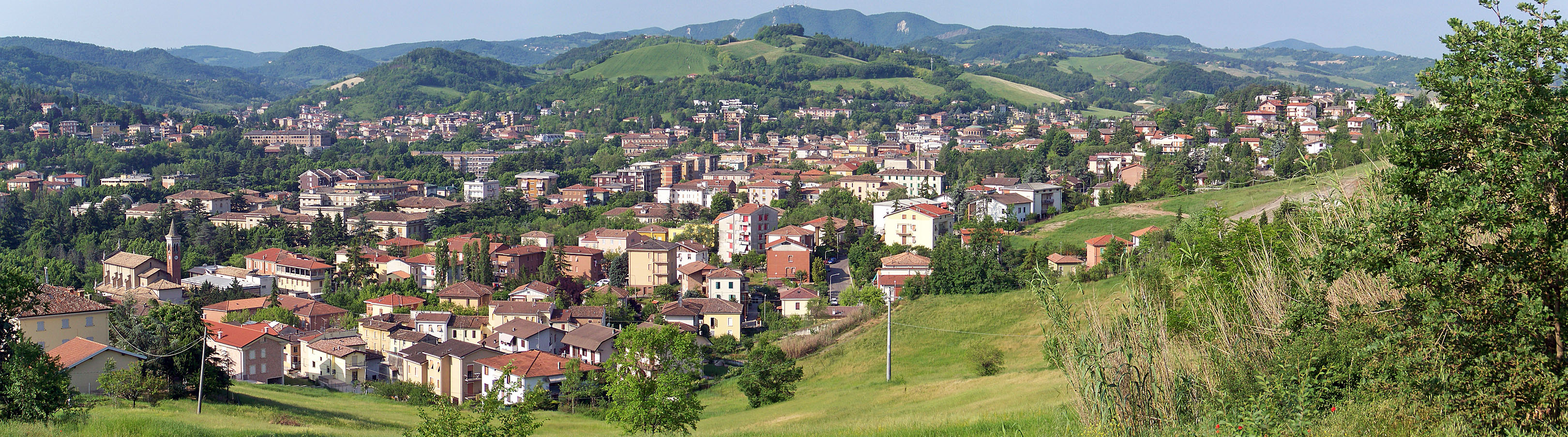 Salsomaggiore Terme's panorama from San Rocchino (Parma - Italy)